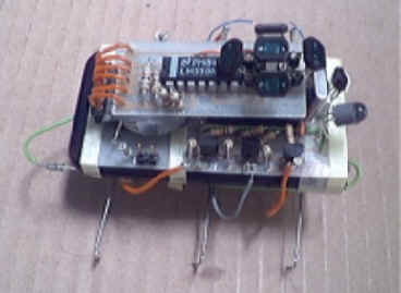 A microrobot produced for a thesis (Polytechnic University of Marche)